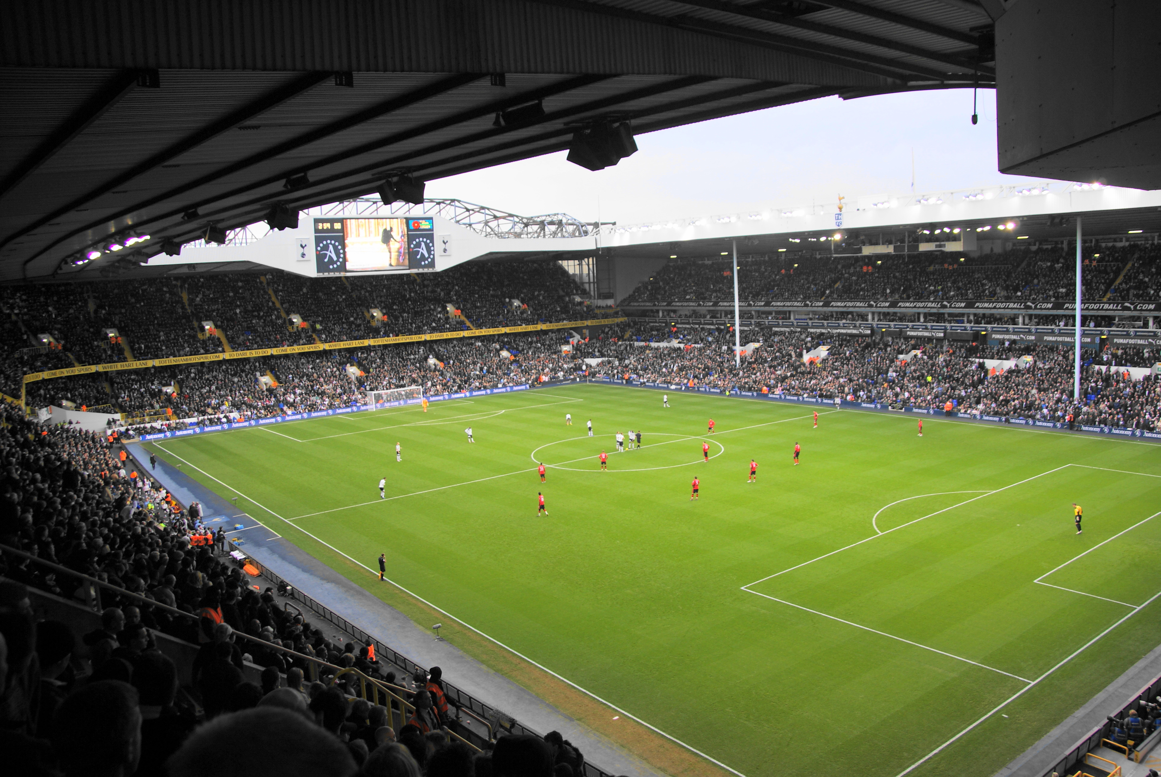 Ready for kick-off at White Hart Lane, near to Tottenham, Haringey, Great Britain. Premier League football - Tottenham v Blackburn Rovers. It ended 4-2 to the home side.